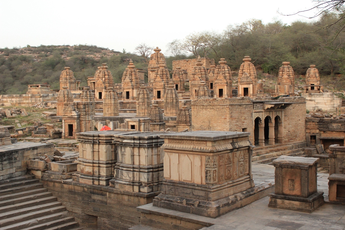 Bateshwar Group of Temples is a group of about 200 temples spread over an area of 25 acres, built across the sloping hills near the village of Padavli in Morena district of Madhya Pradesh. Most of the temples are dedicated to Shiva or Vishnu. They were built during 8th and 10th century C.E., by the Gurjara-Pratihara dynasty, based in Kannauj. Most of them are built in Nagara style with a simple shikhara, no mandapa and a small precursor of antaral. The Nagara style shikhar is topped with an amalaka, or two in some cases, and a pot finial at the top. The shikhar is triratha with a mesh of gavaksha arranged in a line, reaching up to the top. The shikhar is more in the style of the Badami Chalukya architecture, and different from the Maru-Gurjar, central Indian or the Orissan style. A minority of the temples have a simple mandapa with two pillars and no enclosing walls. The entire platform makes for a very impressive sight.